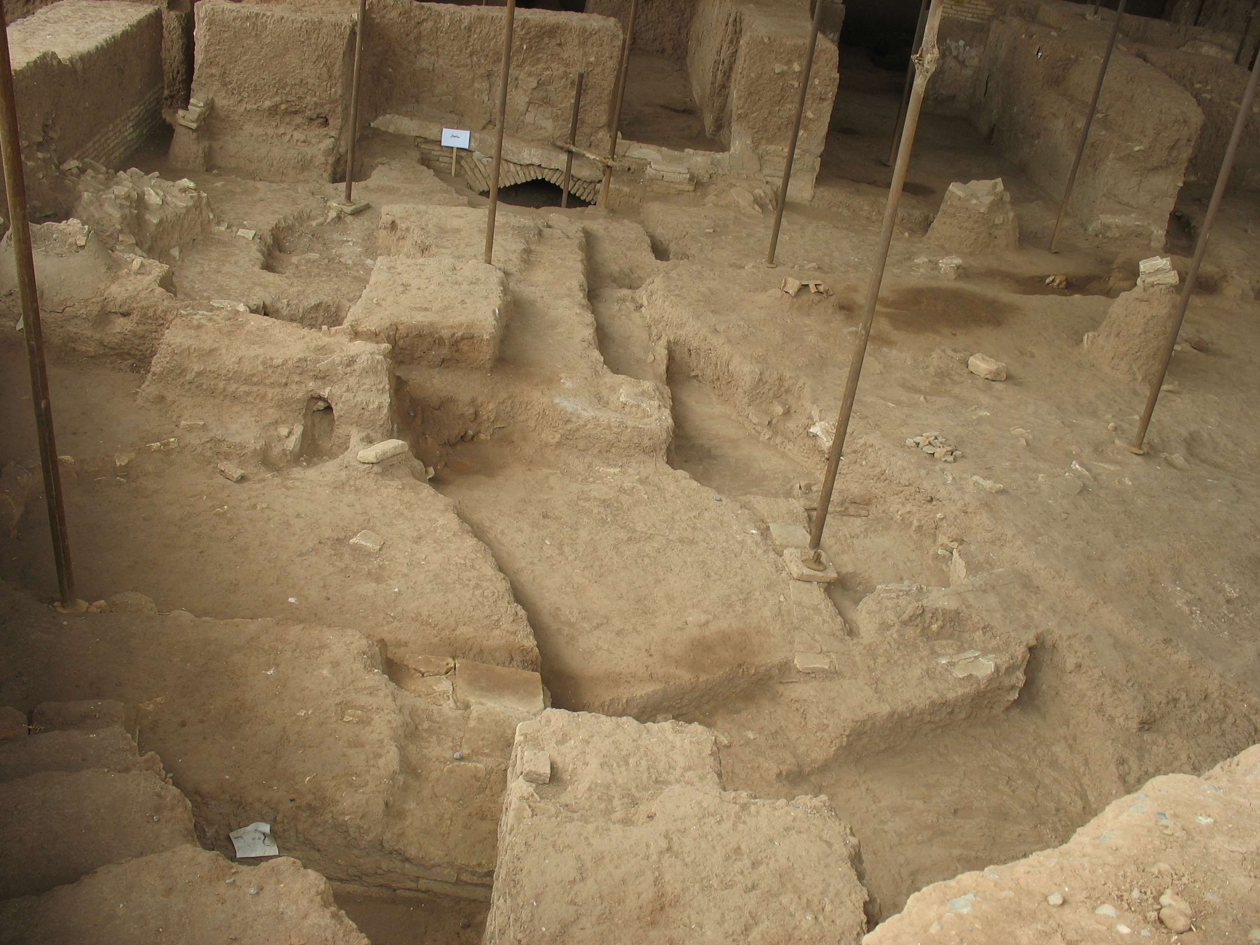 Siahchaal of the palace in Shadiyakh excavations in 1379H in Neyshabur